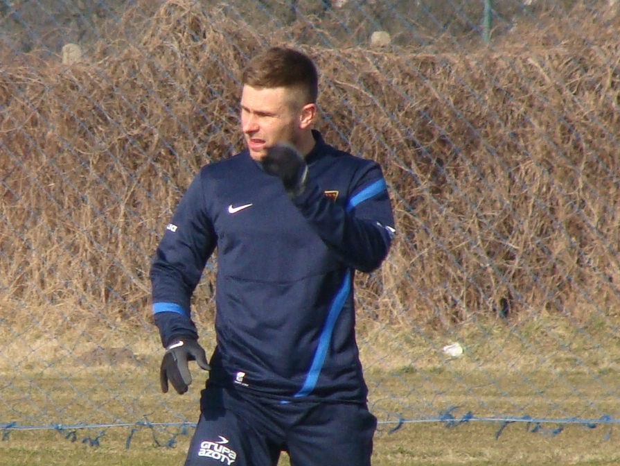 Patryk Małecki training in Pogon Szczecin